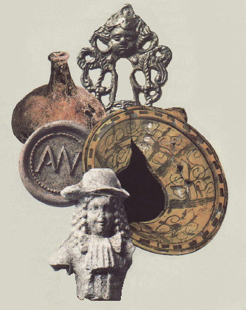 Artifacts on exhibit at Visitors' Center, George Washington Birthplace National Monument, Westmoreland County.